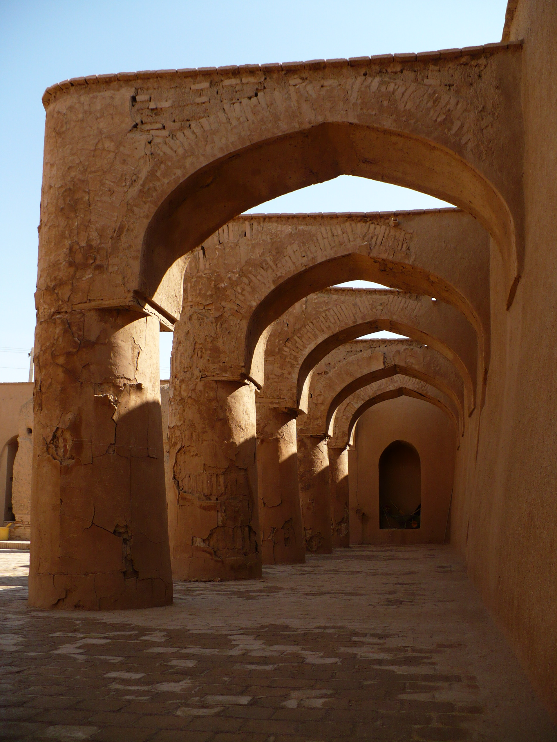 Tarikhaneh mosque in Damghan, the probably oldest mosq in Iran.